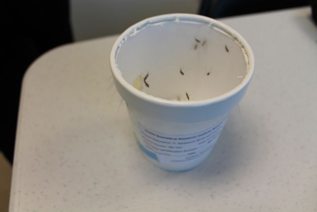 malaria infected mosquitoes in a screened cup to be used during infection research